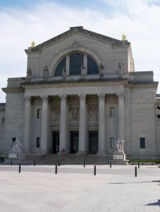 front exterior of the Saint Louis Art Museum.